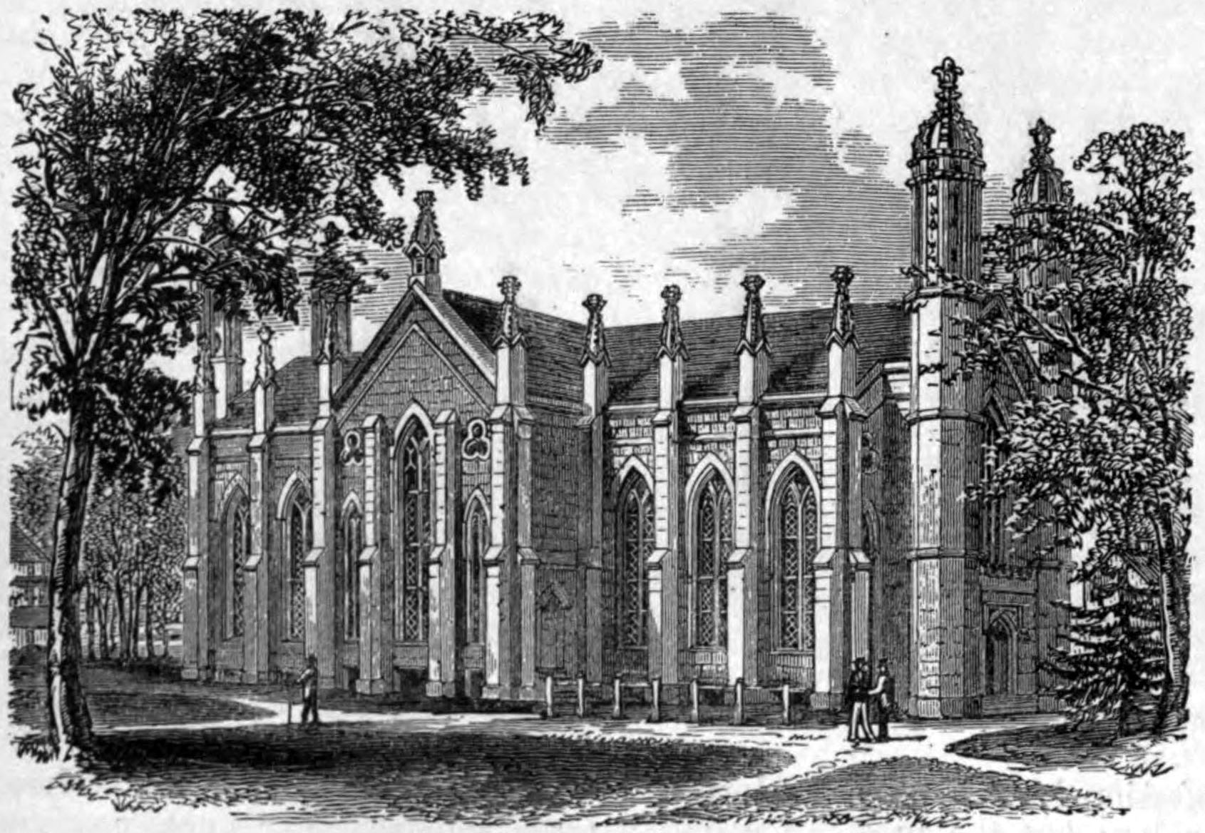 Woodcut of Gore Hall at Harvard University.